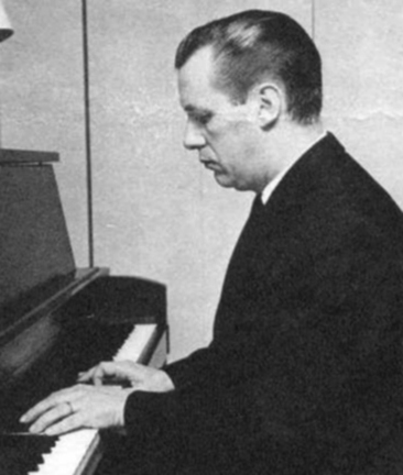 Picture of Héctor Tosar